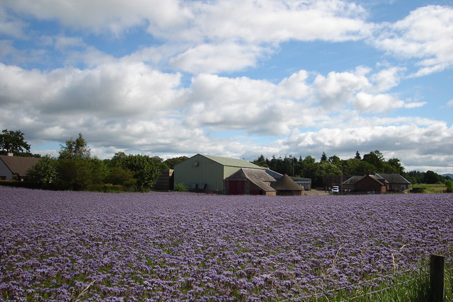 Brunty Farm near Woodside.